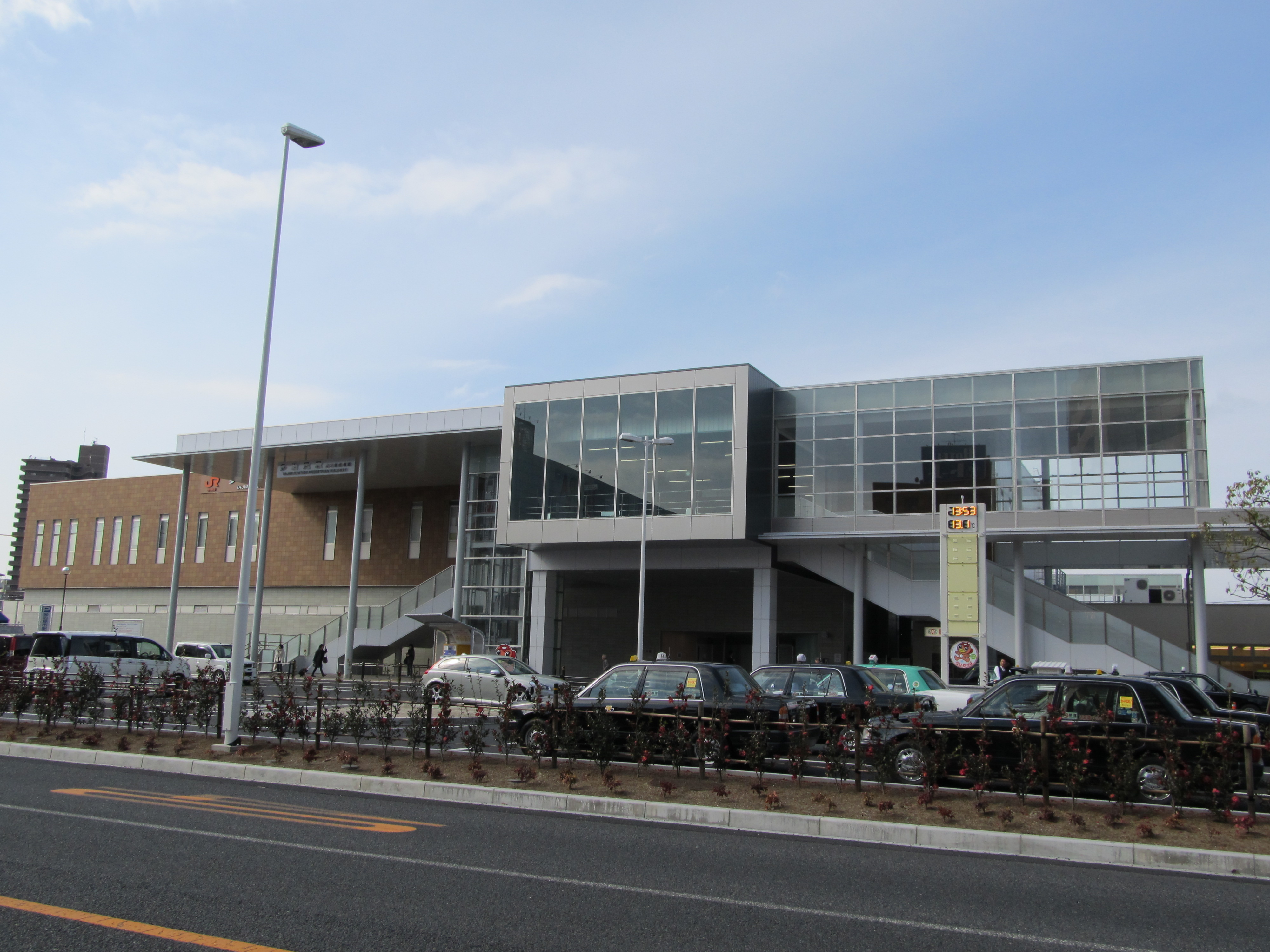 Tajimi Station